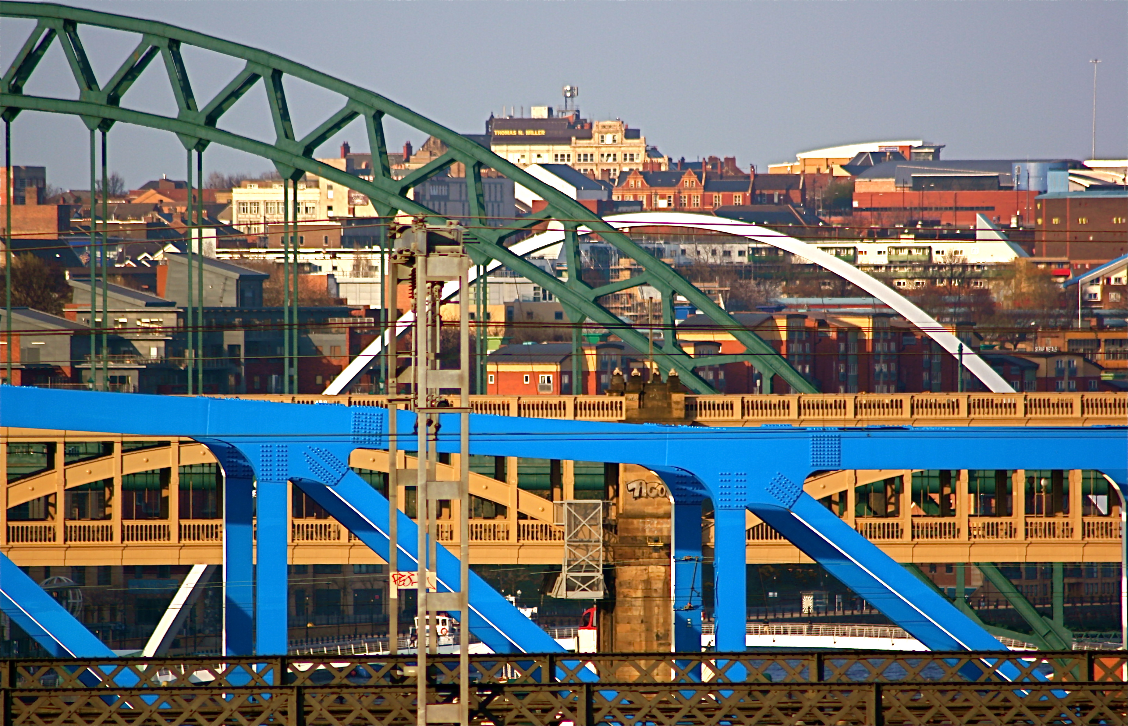 I've been walking to and from work over the last few days and every morning a walk pass this interesting view of the bridges across the river. Don't ever recall see any pictures of them taken from here so I thought I would share. Please let me know what you think.